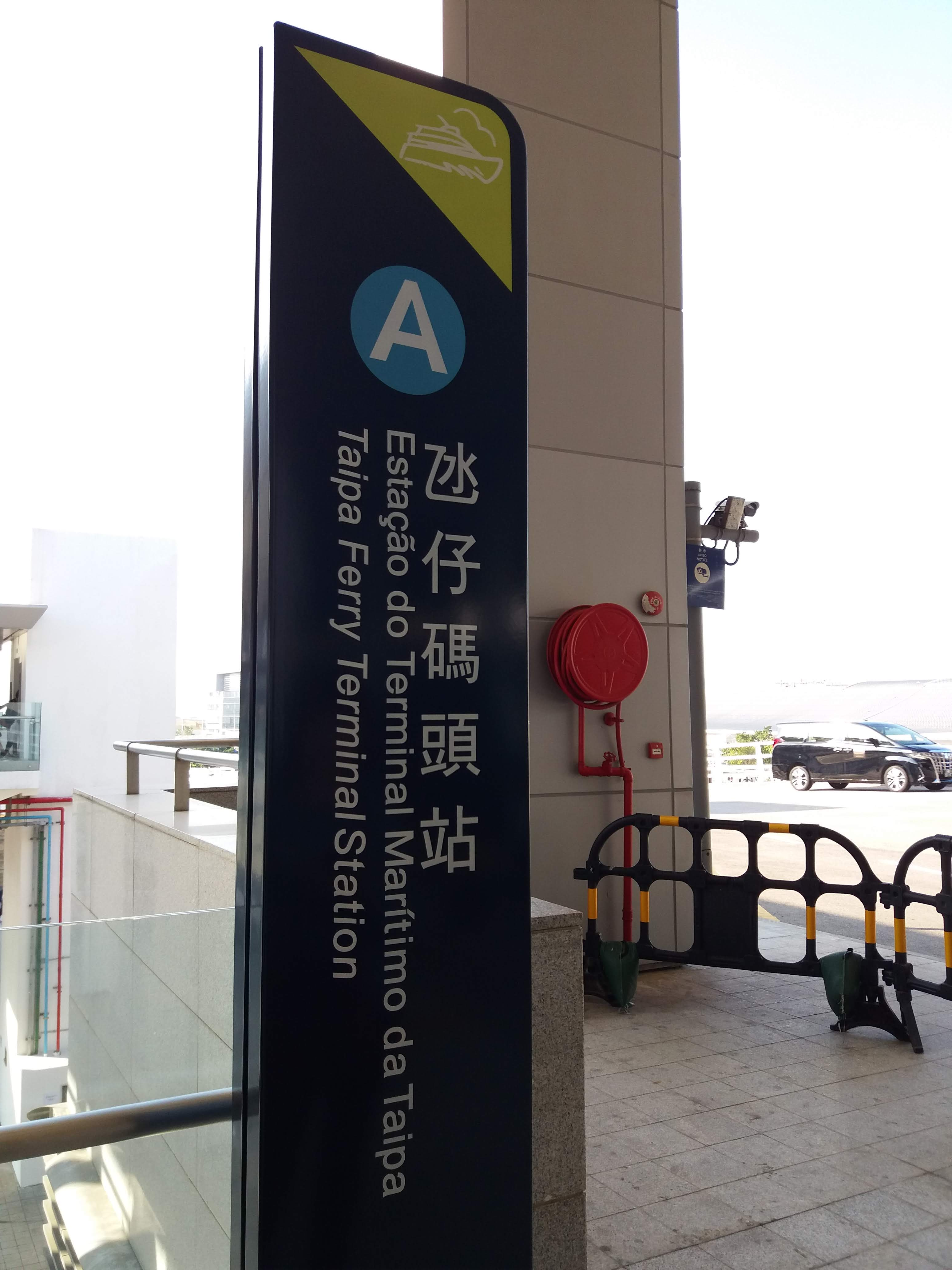 Photos taken on 24 December, 2019, during trip to Macau